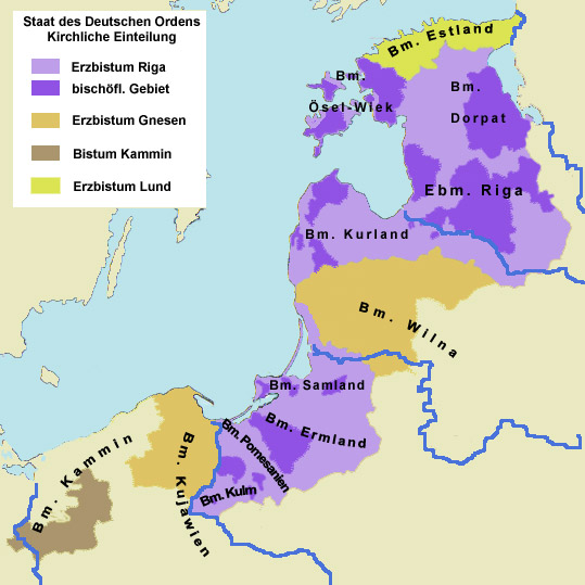 Catholic dioceses in Prussia and adjacent areas. Situation after the conquest in the late 13th century. Areas in purple under control of the Monastic State of the Teutonic Knights.